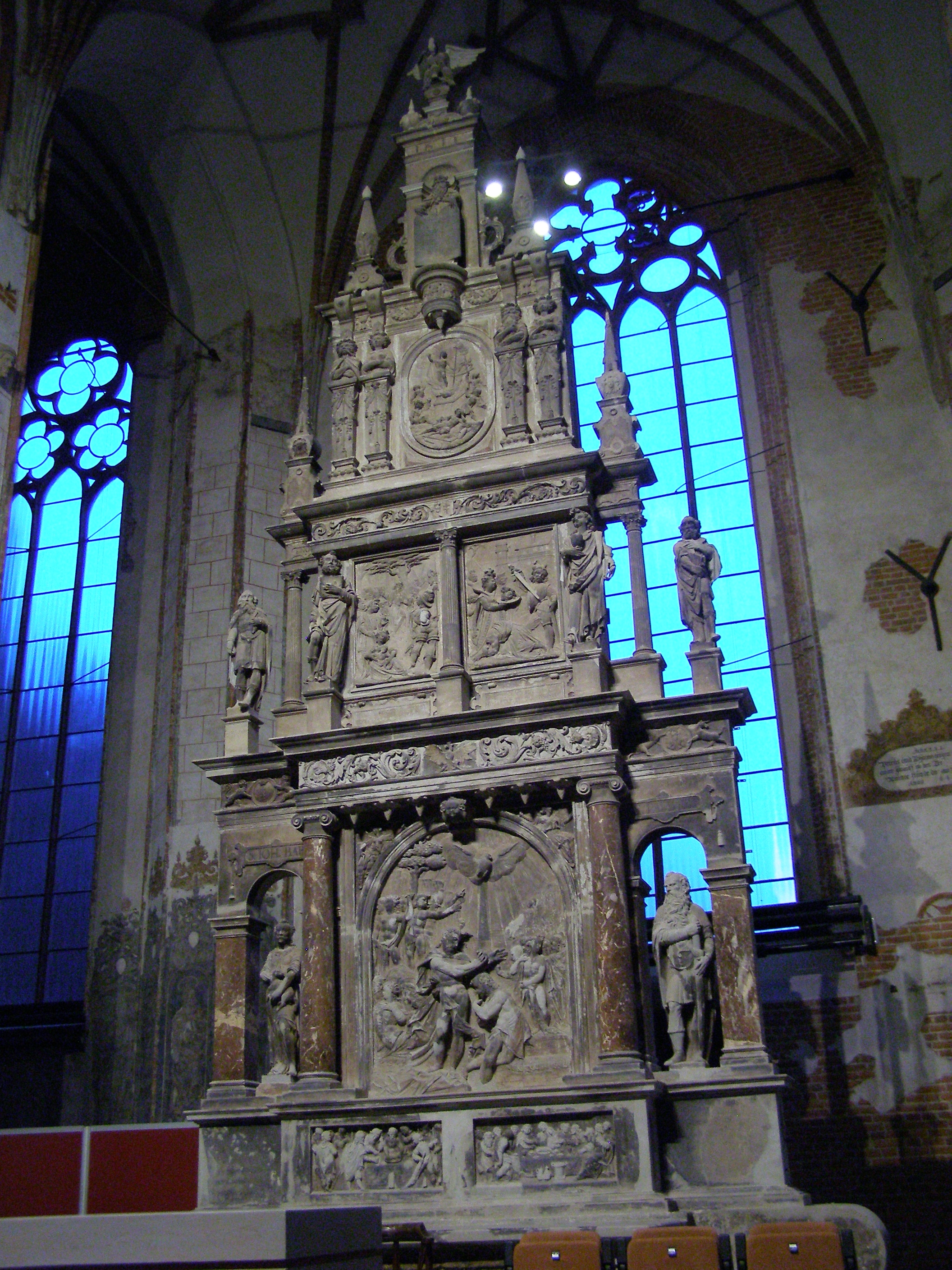 Gdańsk - St. John's church